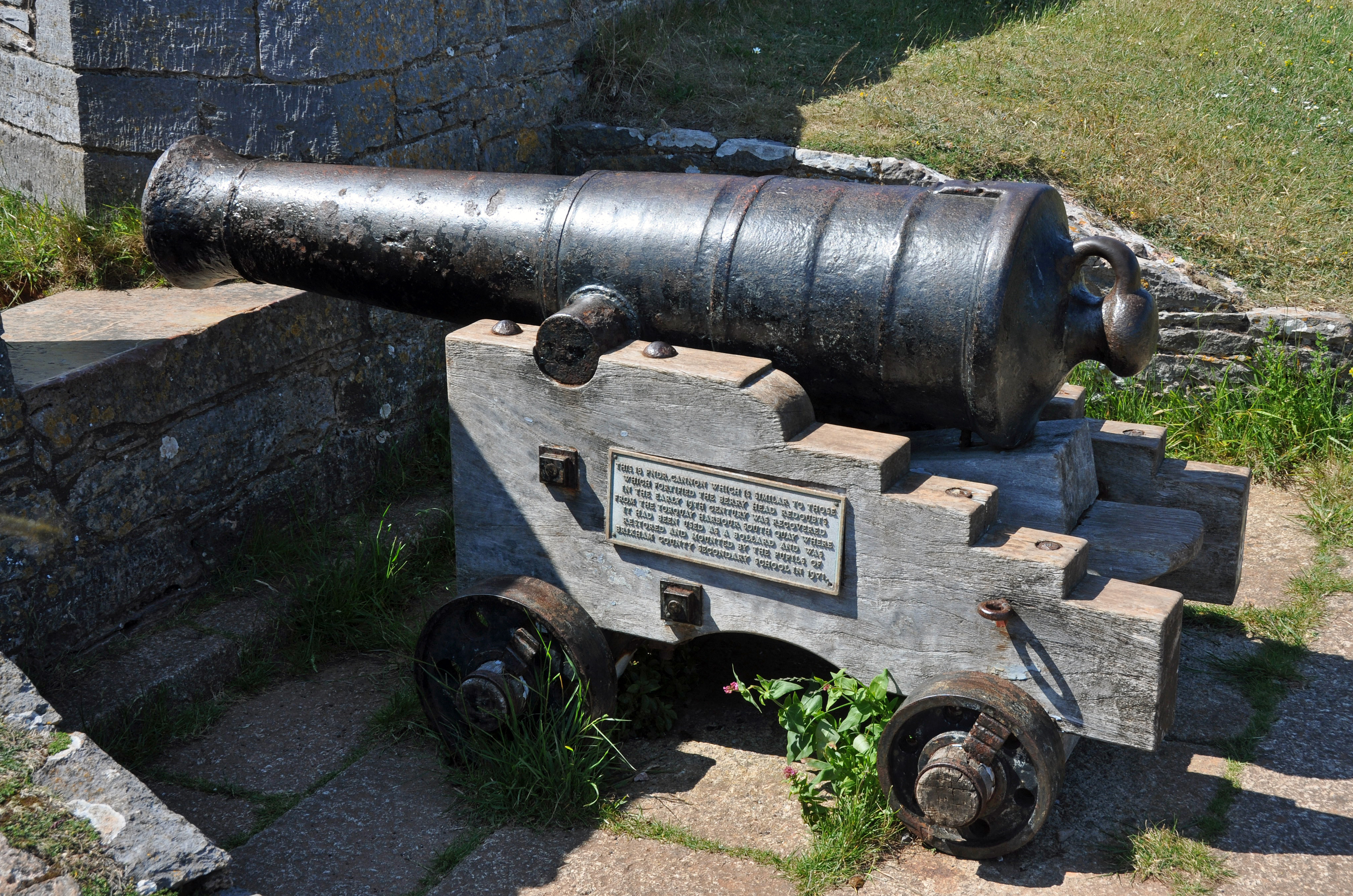 A 18 pounder cannon in the fortifications at Berry Head, Devon, UK.